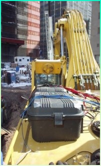 2002 WTC Site - CATI PEMS testing construction equipment